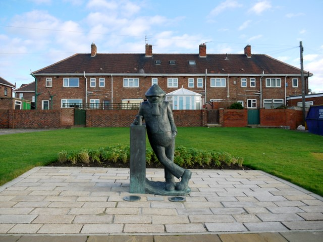 Andy Capp statue. Standing on Croft Terrace on Hartlepool Headland. The statue, by Shropshire artist Jane Robbins, captures the working class cartoon hero in a typically relaxed pose, but minus his trademark cigarette. The 5 feet high, bronze statue was unveiled on 28 June 2007. The £20,000 statue was funded by the North Hartlepool Partnership with the help of a £2,000 donation from the Daily Mirror, the news paper in which Andy first appeared in 1957, cf. Home town gains Andy Capp statue. (June 28, 2007). Reg Smythe, the creator of Andy Capp, was born and died in Hartlepool and based the characters on his own parents Andy_Capp. The rear of the terraced houses on Londonderry Street can be seen behind.